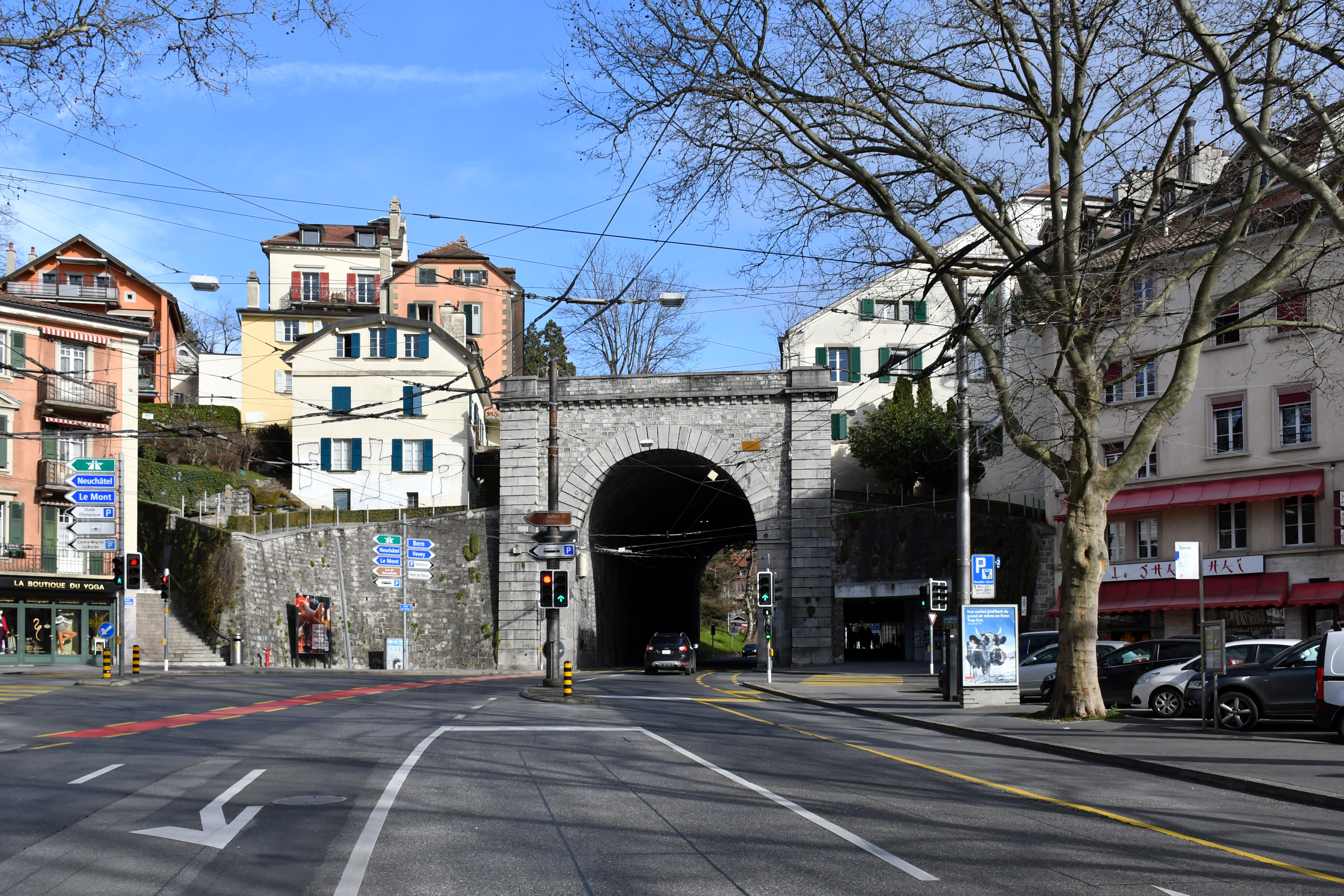 The Tunnel square in Lausanne (Switzerland) and the west portal of the Barre Tunnel.